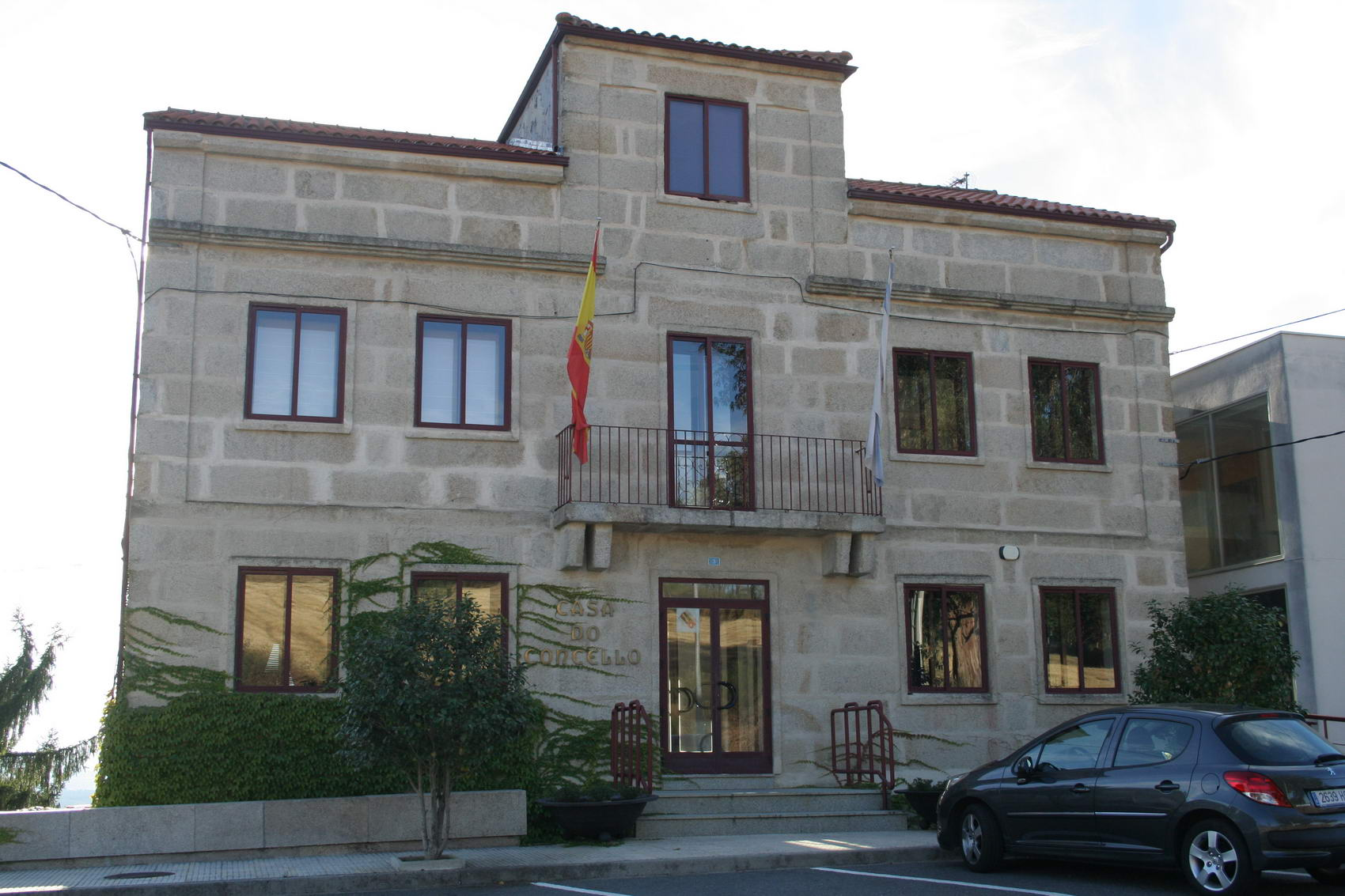 Town Hall in A Merca (Spain)